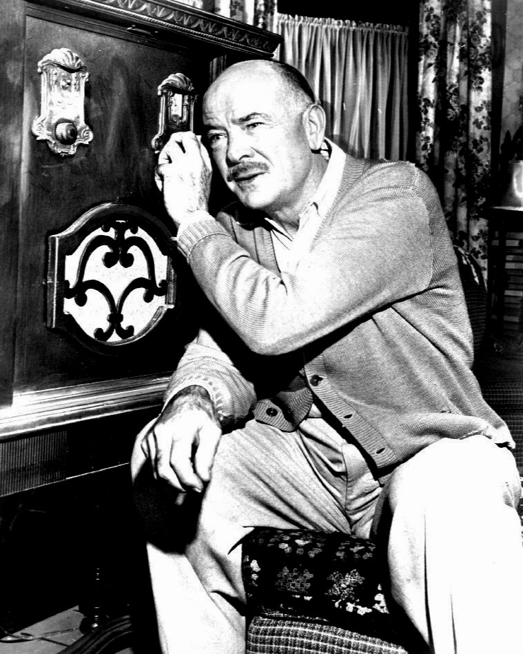 Photo of Dean Jagger from The Twilight Zone episode Static. Jagger plays Ed Lindsay, a man whose old radio is able to receive radio broadcasts from years past.